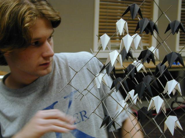 Virgil Griffith